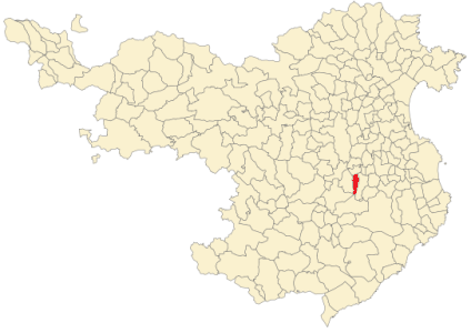 Juià